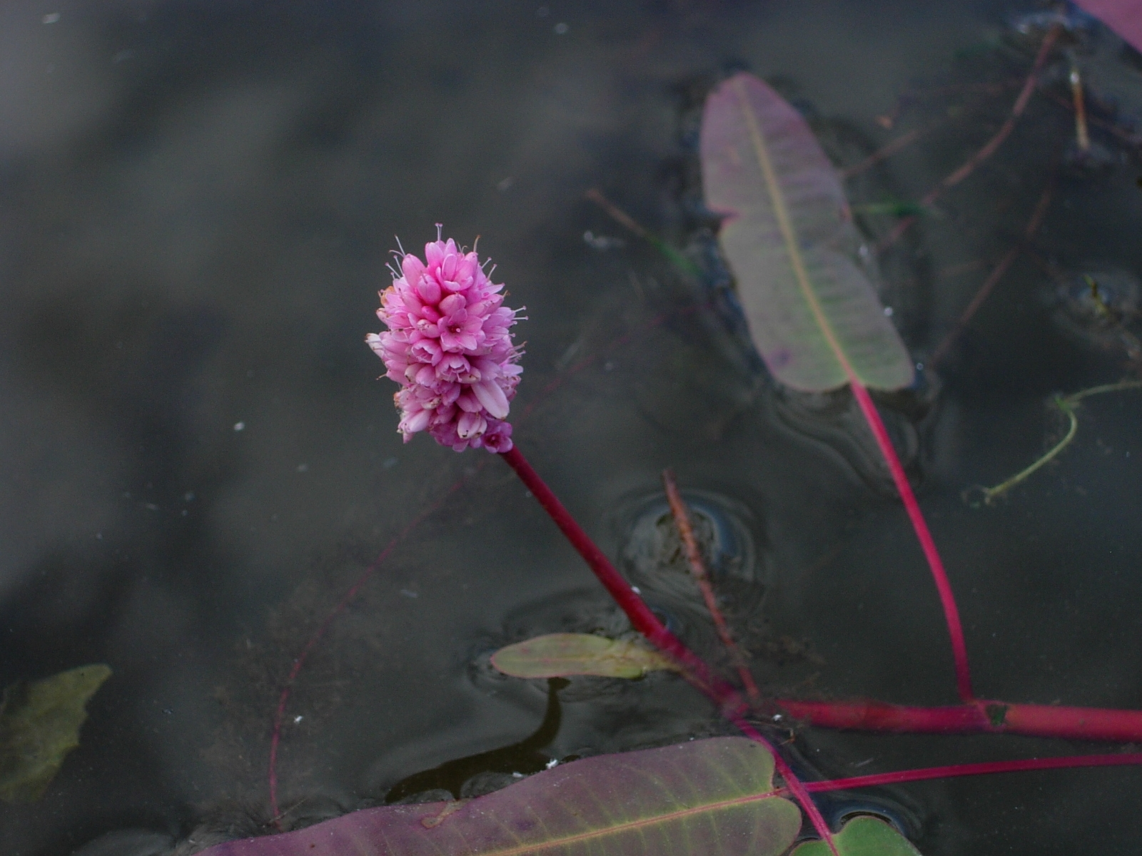 Yu Ito (2012) Aquatic plant surveys in northern Europe. Bulletin of Water Plant Society, Japan 98: 45-50.